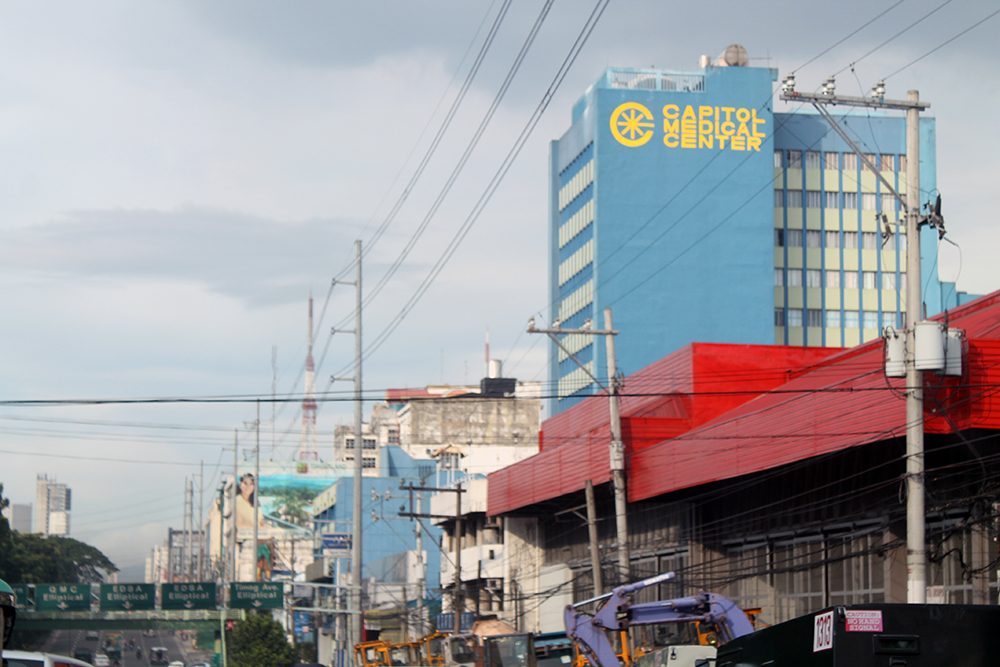 Capitol Medical Center along Quezon Avenue.